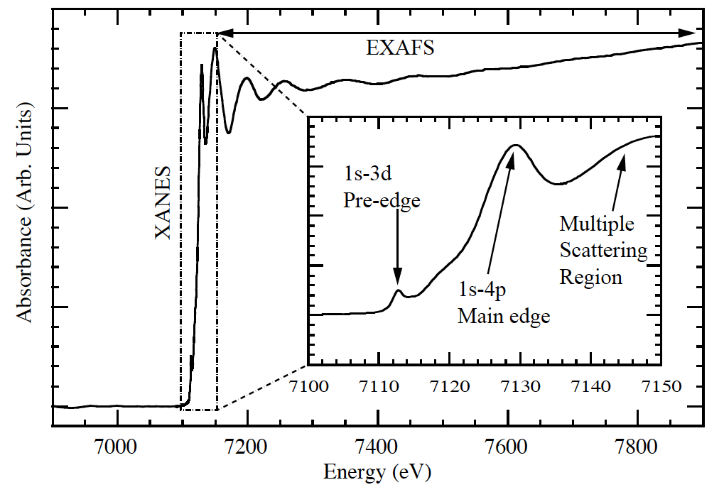 XANES spectrum Fe